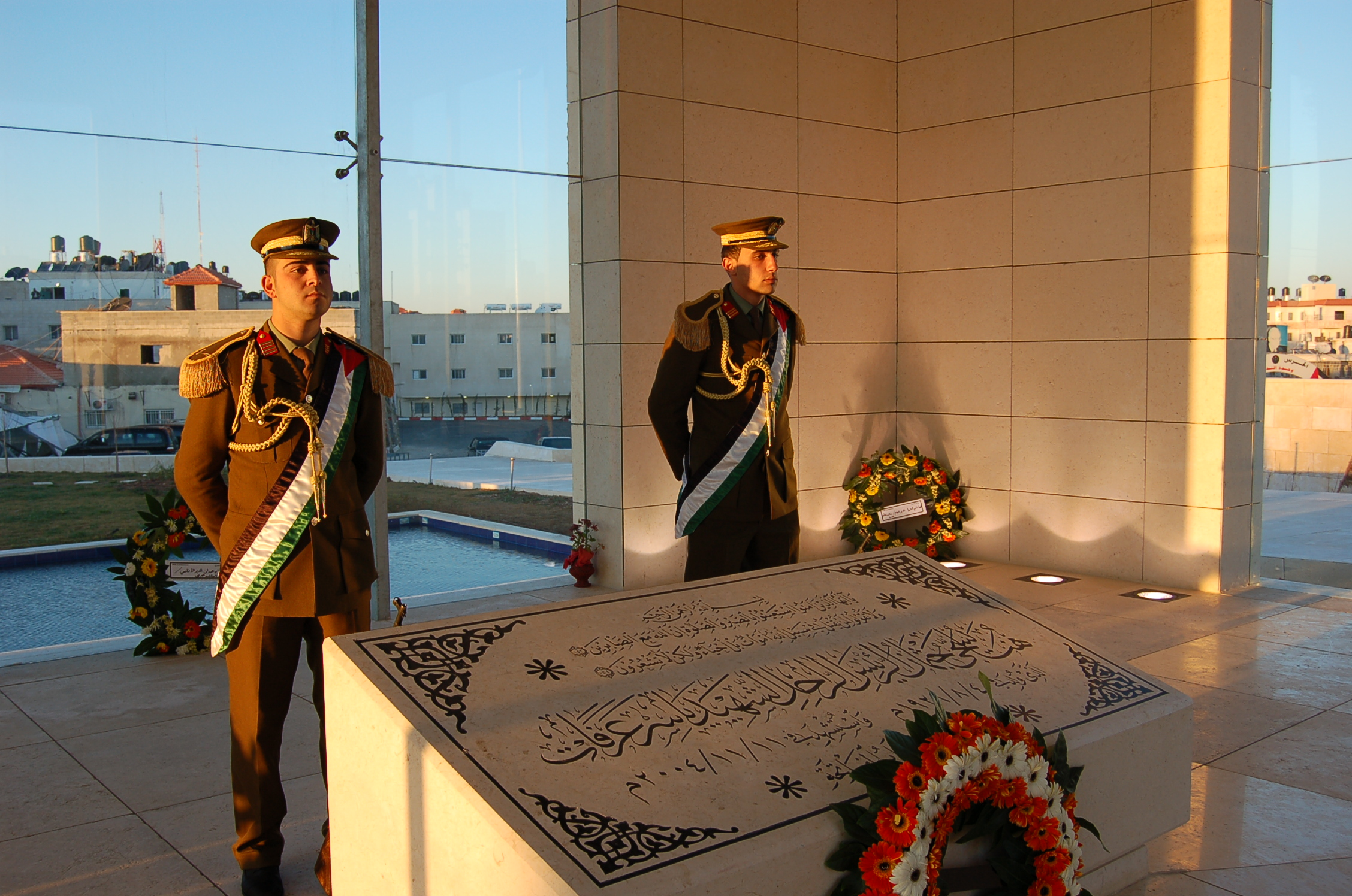 Guards standing by Arafat's tomb